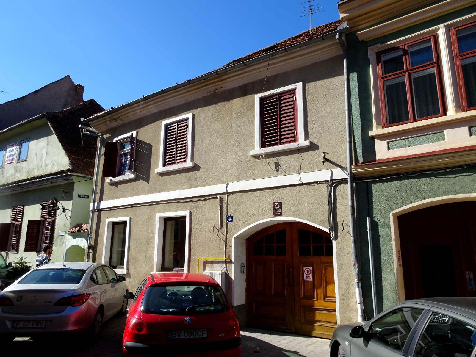 Strada Cerbului in Brasov, house number 20, historic monument